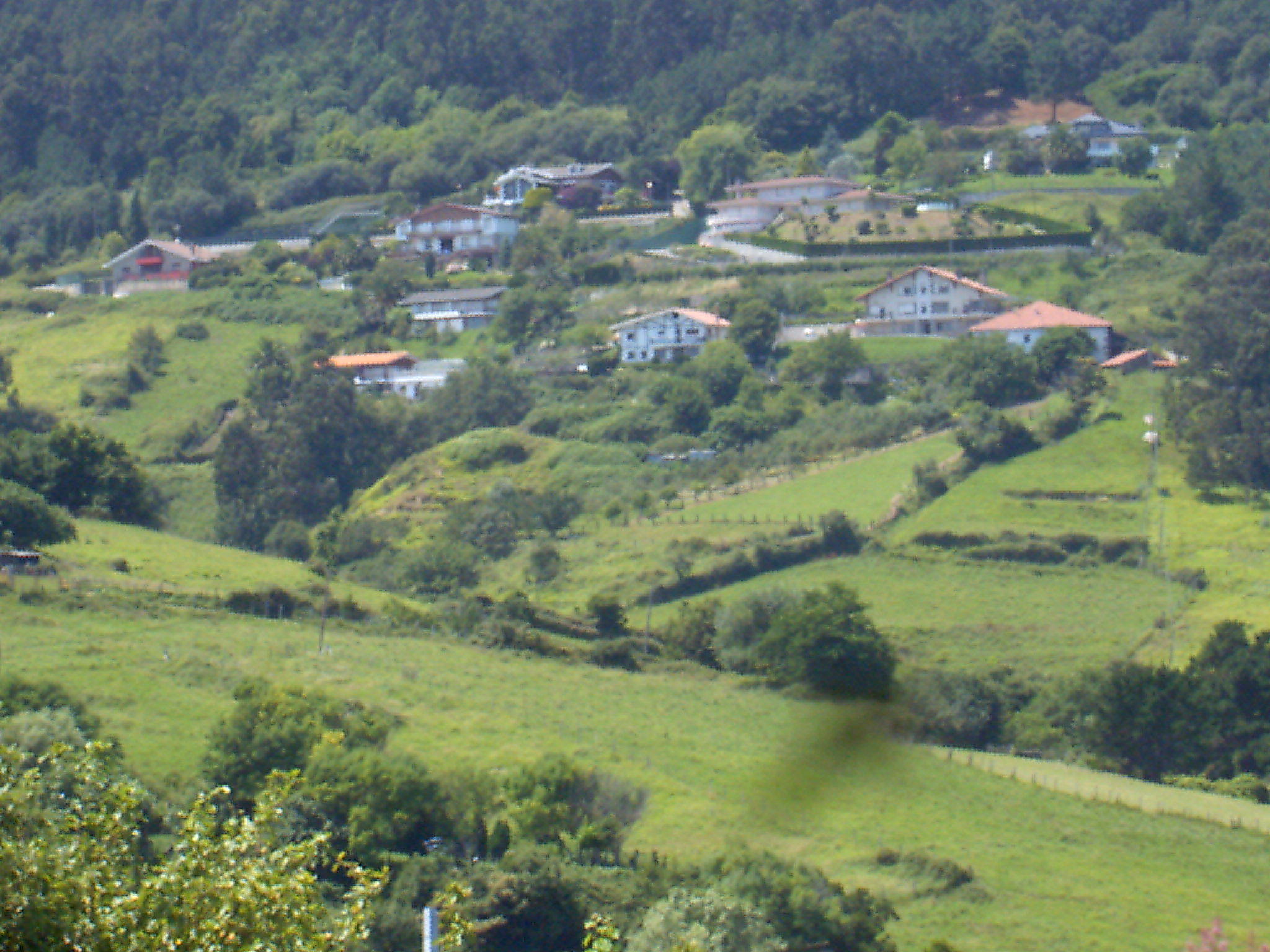 Arana neighbourghood, in Bermeo